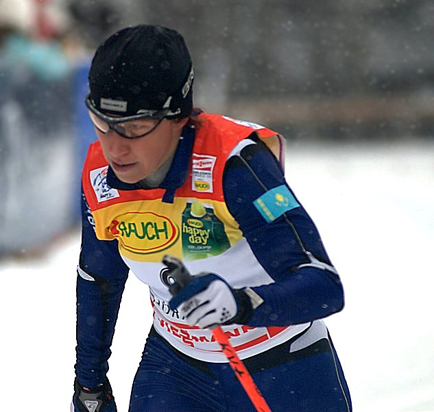 Oxana Jatskaja at the Tour de Ski 2010 in Oberhof